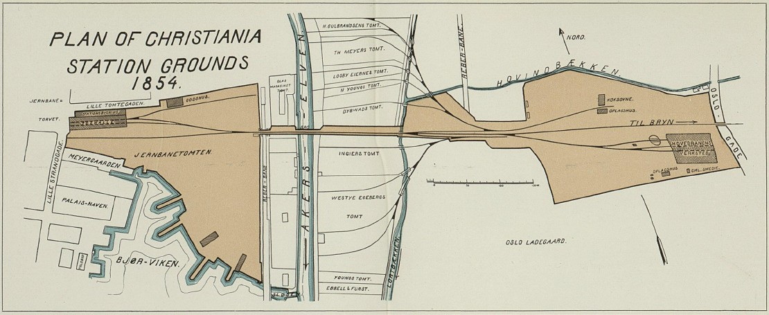 Plan of Christiania station grounds 1854.